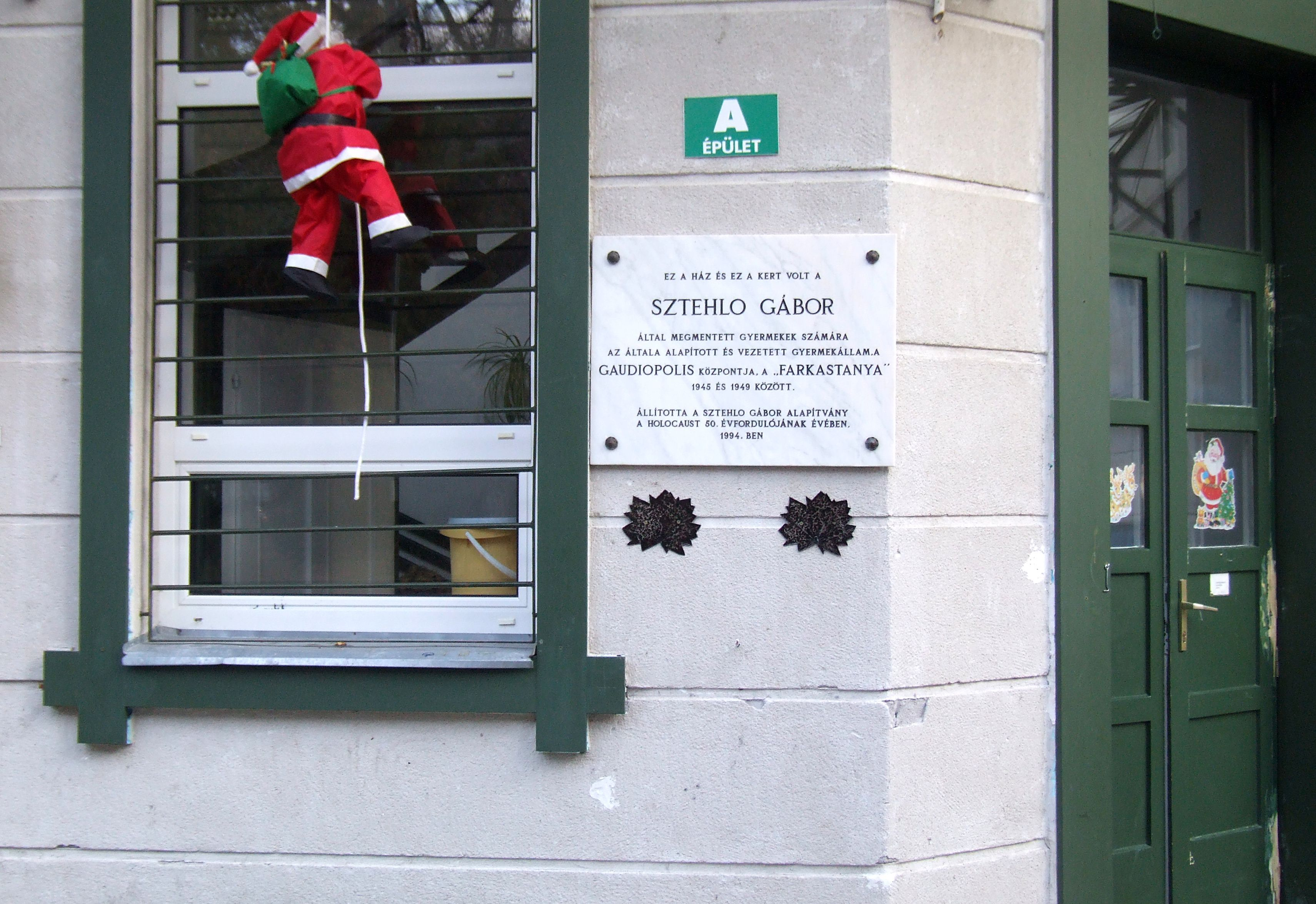 Gaudiopolis and Gábor Sztehlo commemorative plaque in Budapest District XII, Budakeszi Street No 48